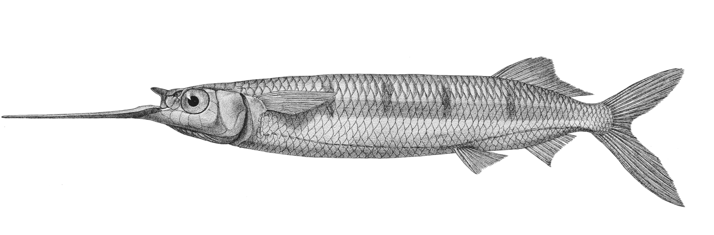 The species names / identity need verification. The original plates showed the fishes facing right and have been flipped here. Hemiramphus far